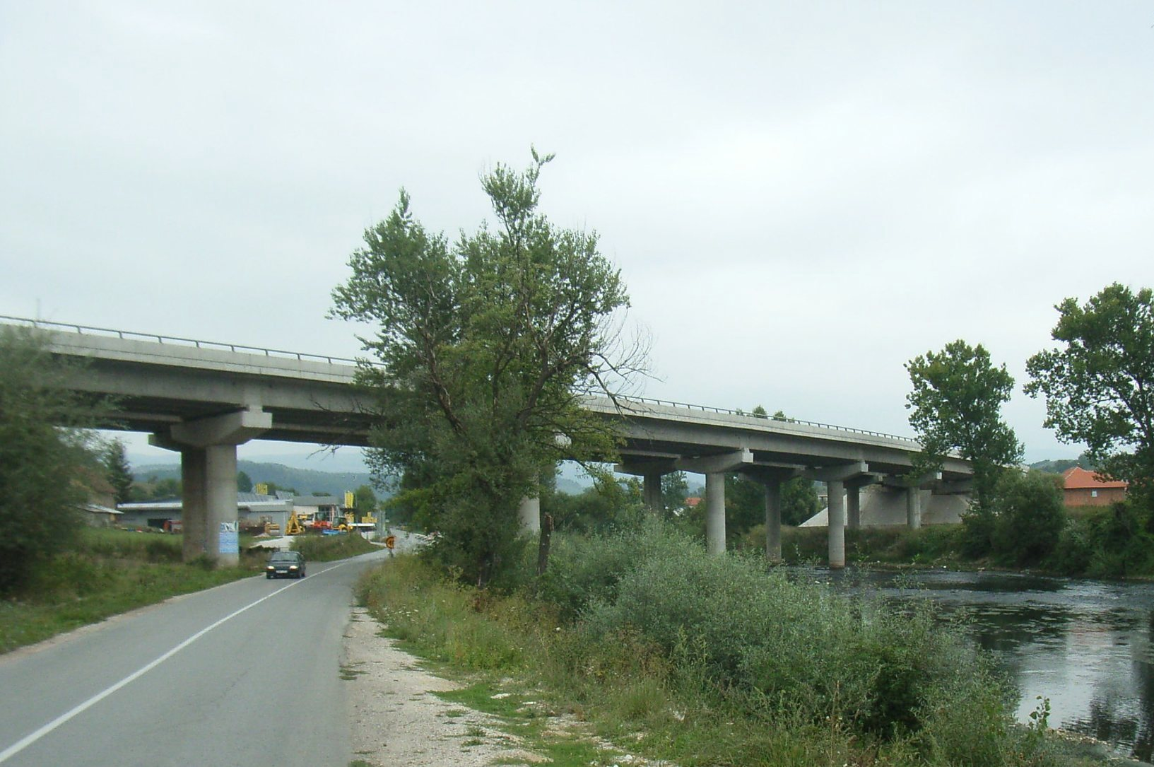 Highway bridge over the river Bosna near Visoko in Bosnia an Herzegovina